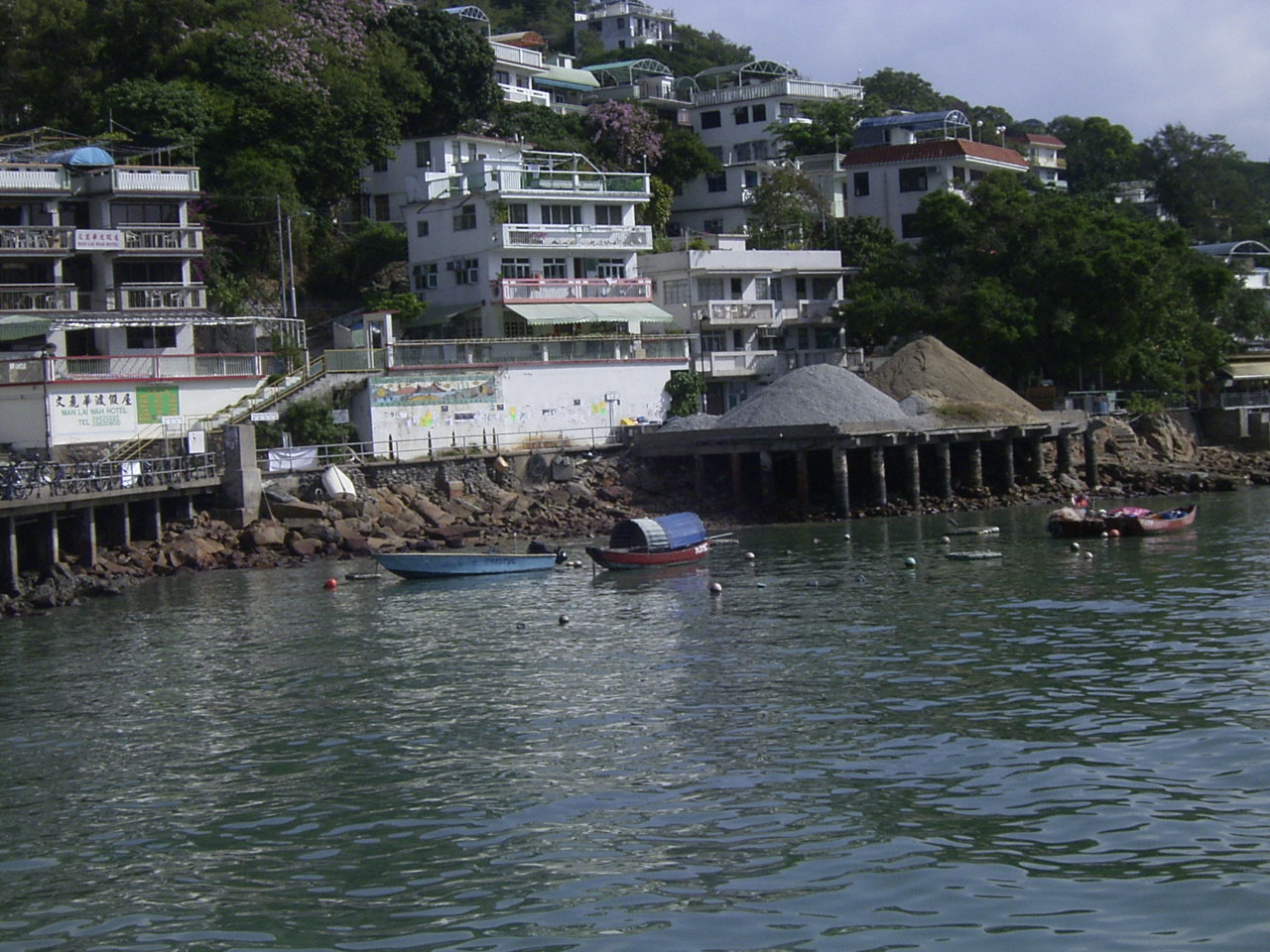 Yung Shue Wan, HK